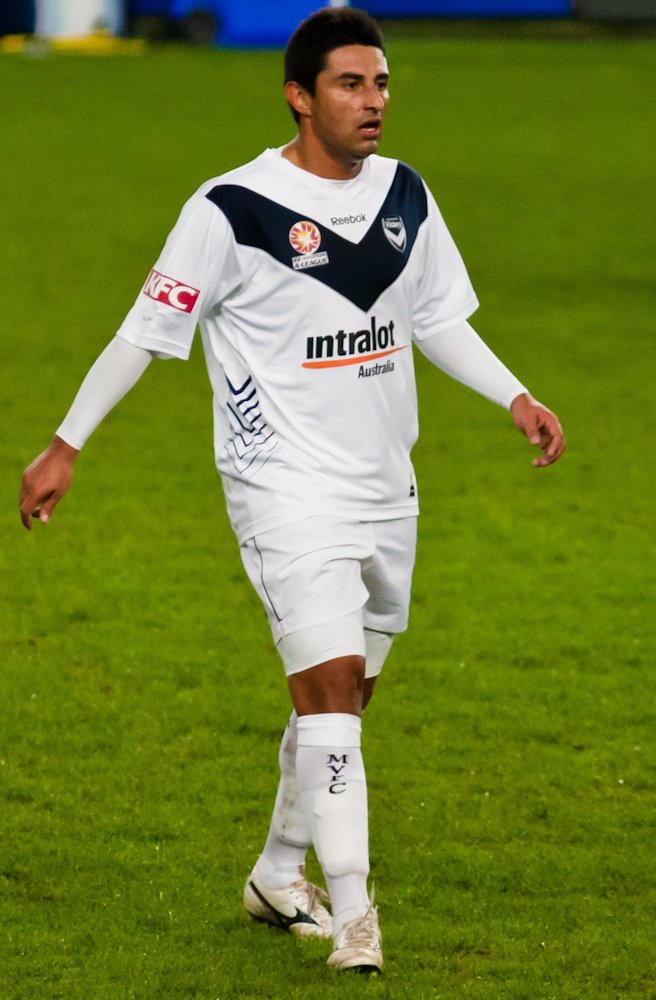 Carlos Hernández playing for Melbourne Victory FC in Round 1 of the 2010-11 A-League against Sydney FC.